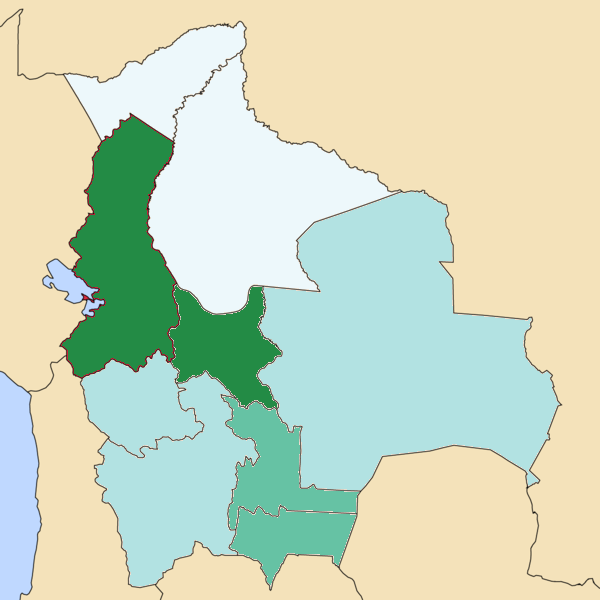 Population density map of Bolivia